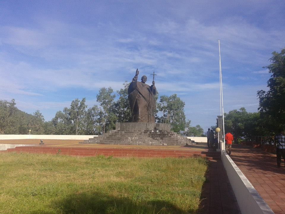 Ioannes Paulus II Monument in Tasitolu